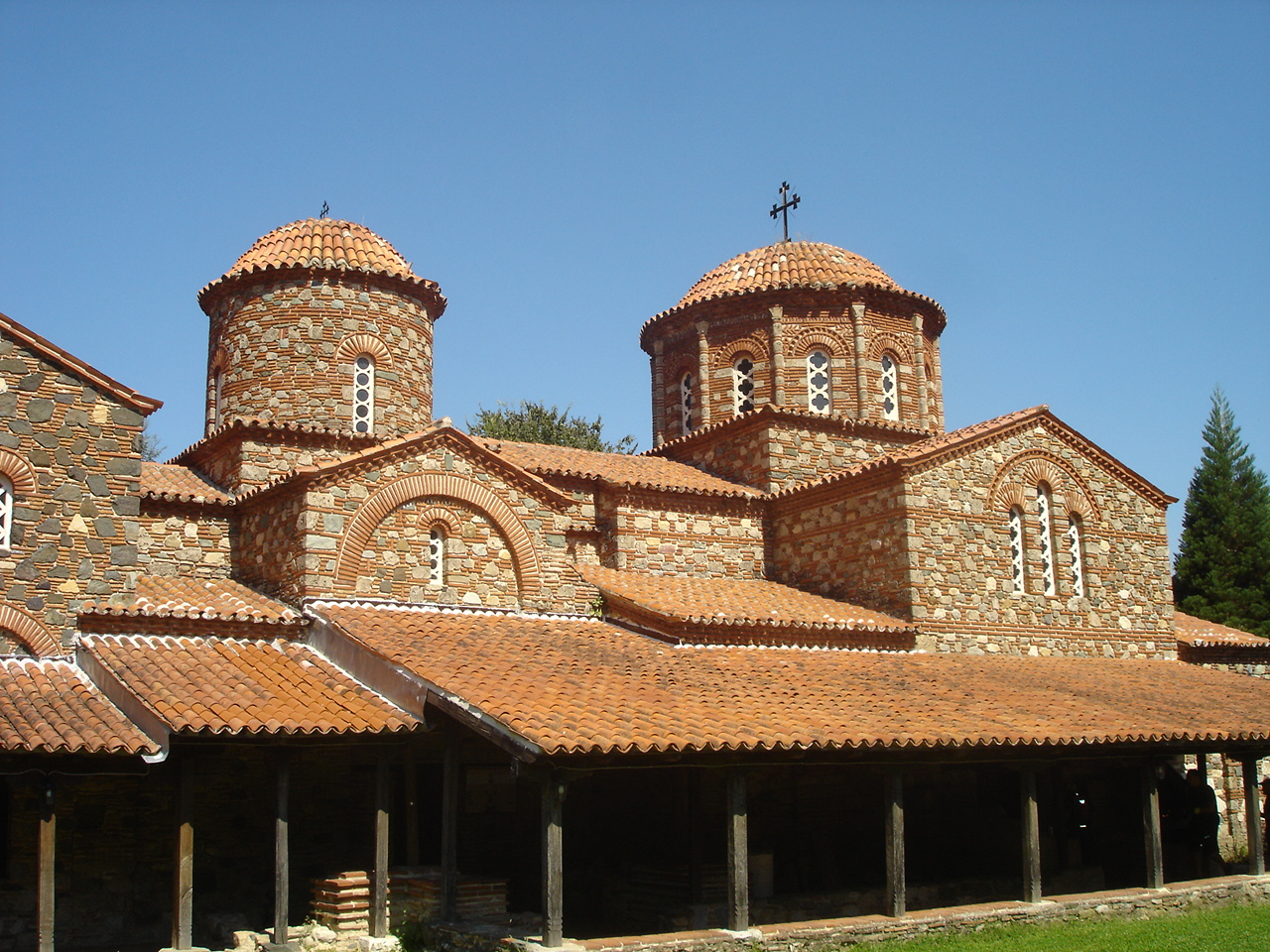 Vodoča Monastery, near Strumica, Macedonia